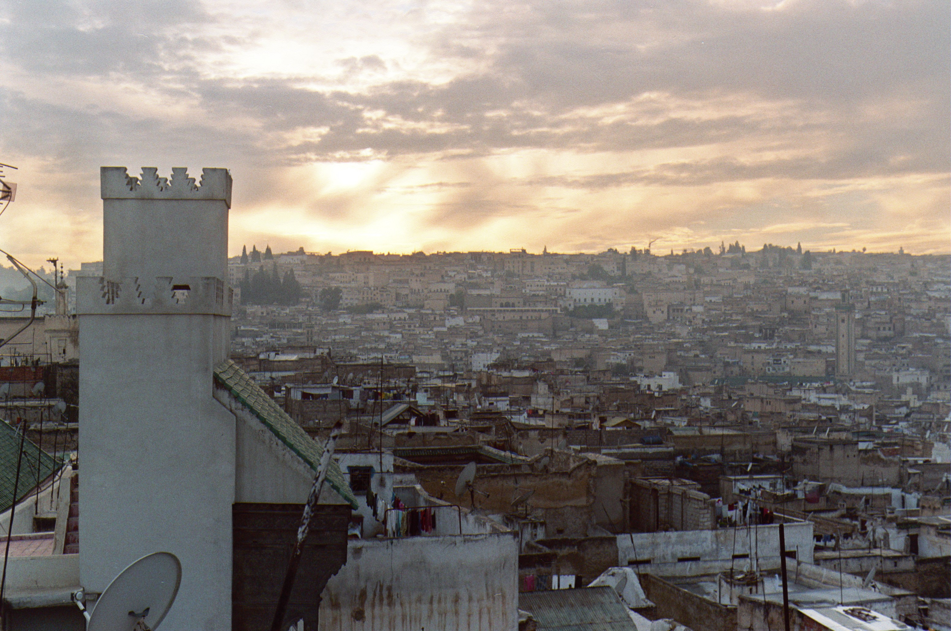 Author: Mariano Sanz Place: Fès (Morroco). (The tower-like structure on the left is the portal of the Andalusian Mosque.)